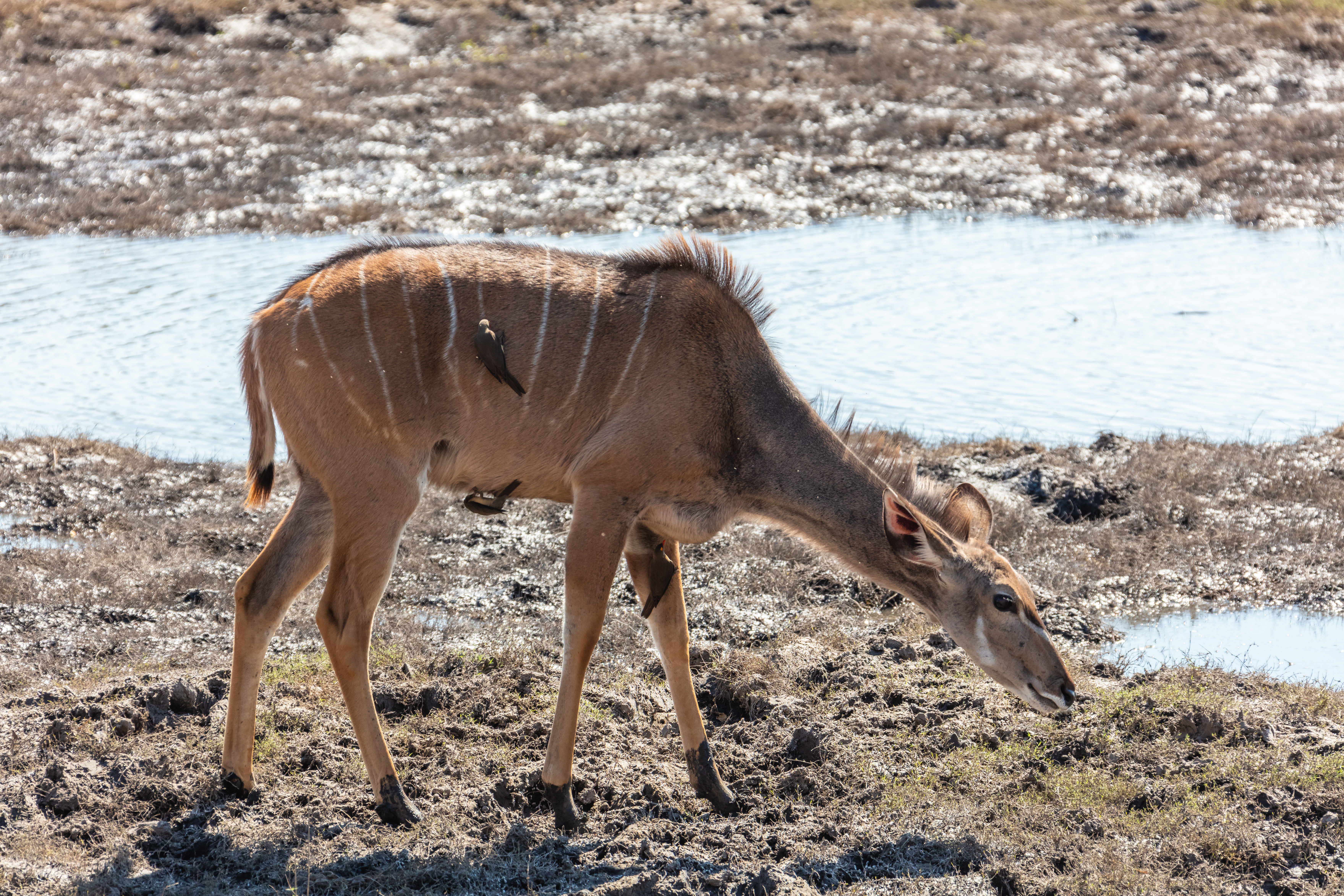 Greater kudu (Tragelaphus strepsiceros) with Red-billed oxpeckers​ (Buphagus erythrorhynchus), Chobe National Park, Botswana